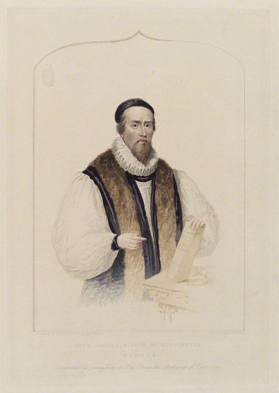 Portrait of John Hooper; hand-coloured stipple engraving; held at the National Portrait Gallery